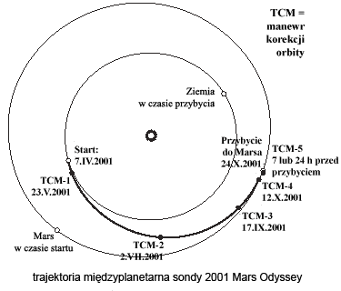 Mars 2001 Odyssey Earth-Mars Trajectory